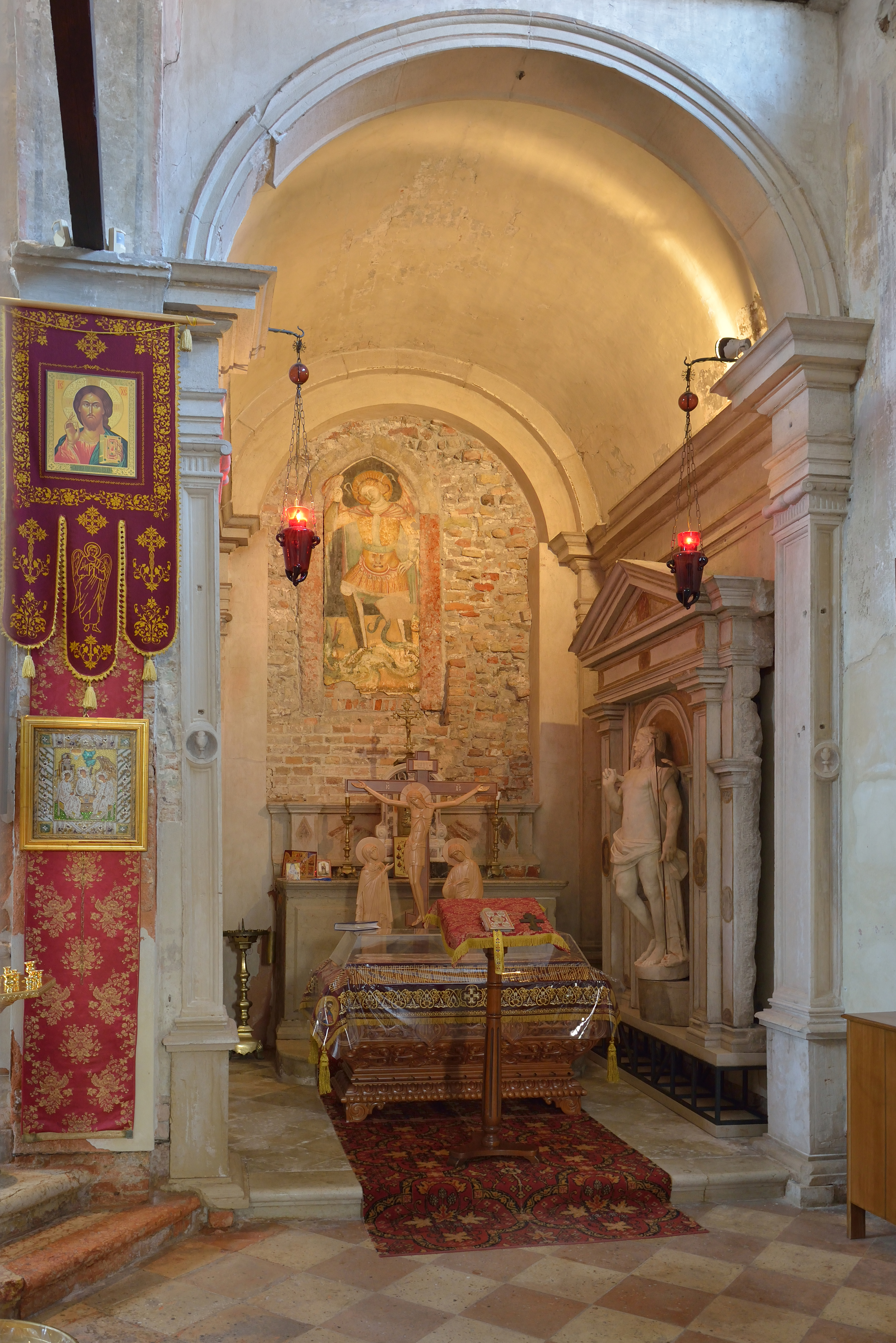 San Zan Degola church in Venice.